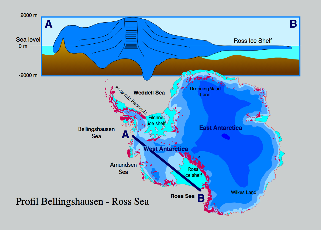 Profile through the Antarctic ice sheet (A) Bellingshausen Sea - West Antarctic ice sheet - Ross ice shelf - Ross Sea (B). The profile shows that most of the West Antarctic ice sheet is grounded below sea level which makes it sensitive to sea level rise. If the contact of the ice to the bottom rocks is lost seaward of the grounding line, the ice sheet becomes significantly thinner (some 100 m), forming a shelf ice. lines in profile are lines of similar age; annual layers in the center are thinning from top to bottom turquoise areas: ice shelf red areas: not ice covered (2.8 % of total area) blue shaded areas increment by 1000 m in thickness